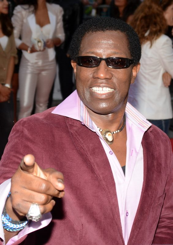 Wesley Snipes in Paris at the French premiere of "The Expendables 3"